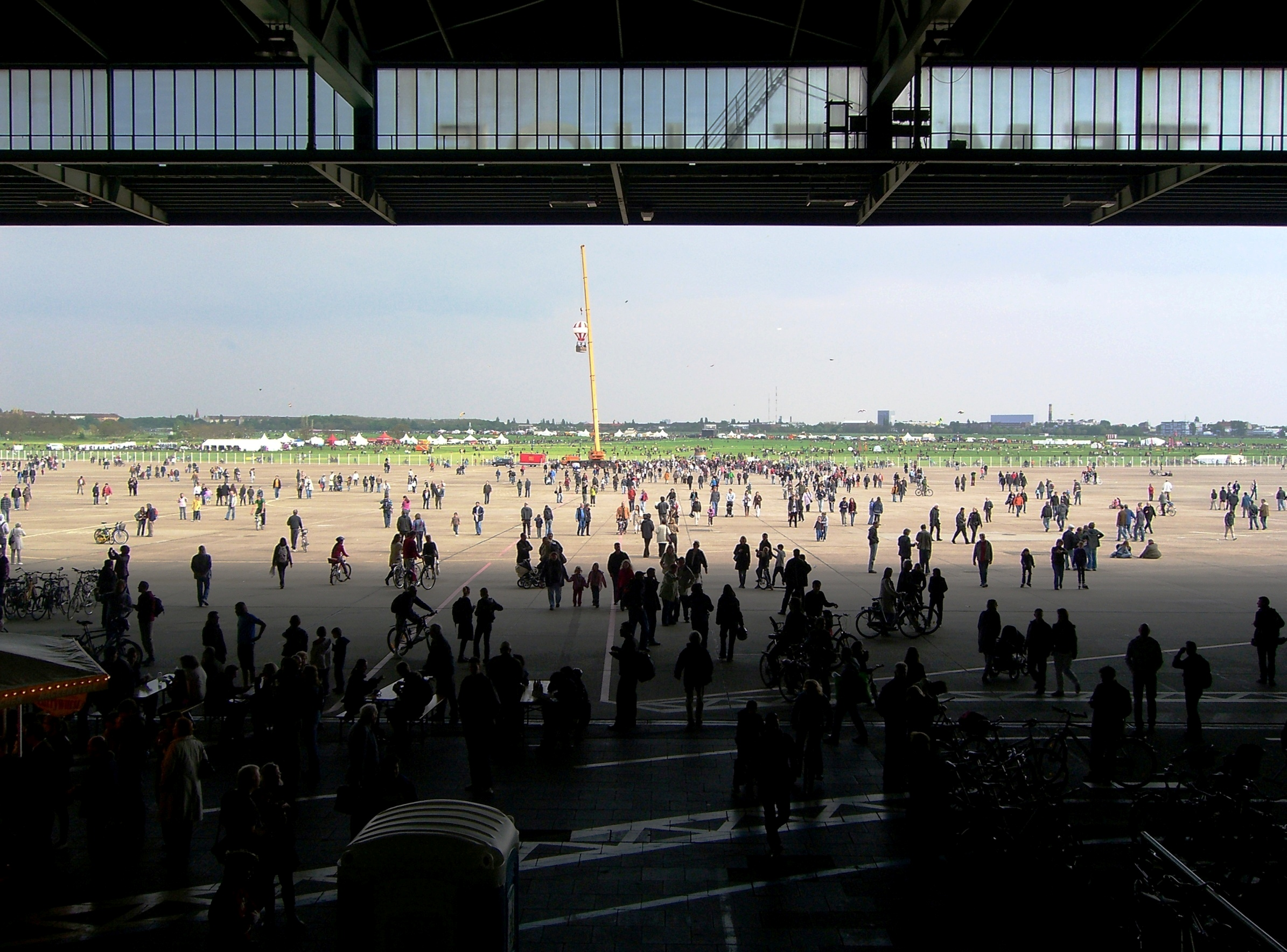 Opening of the "Tempelhof Air Field" (former Berlin Tempelhof Airport) to the public in May 2010.